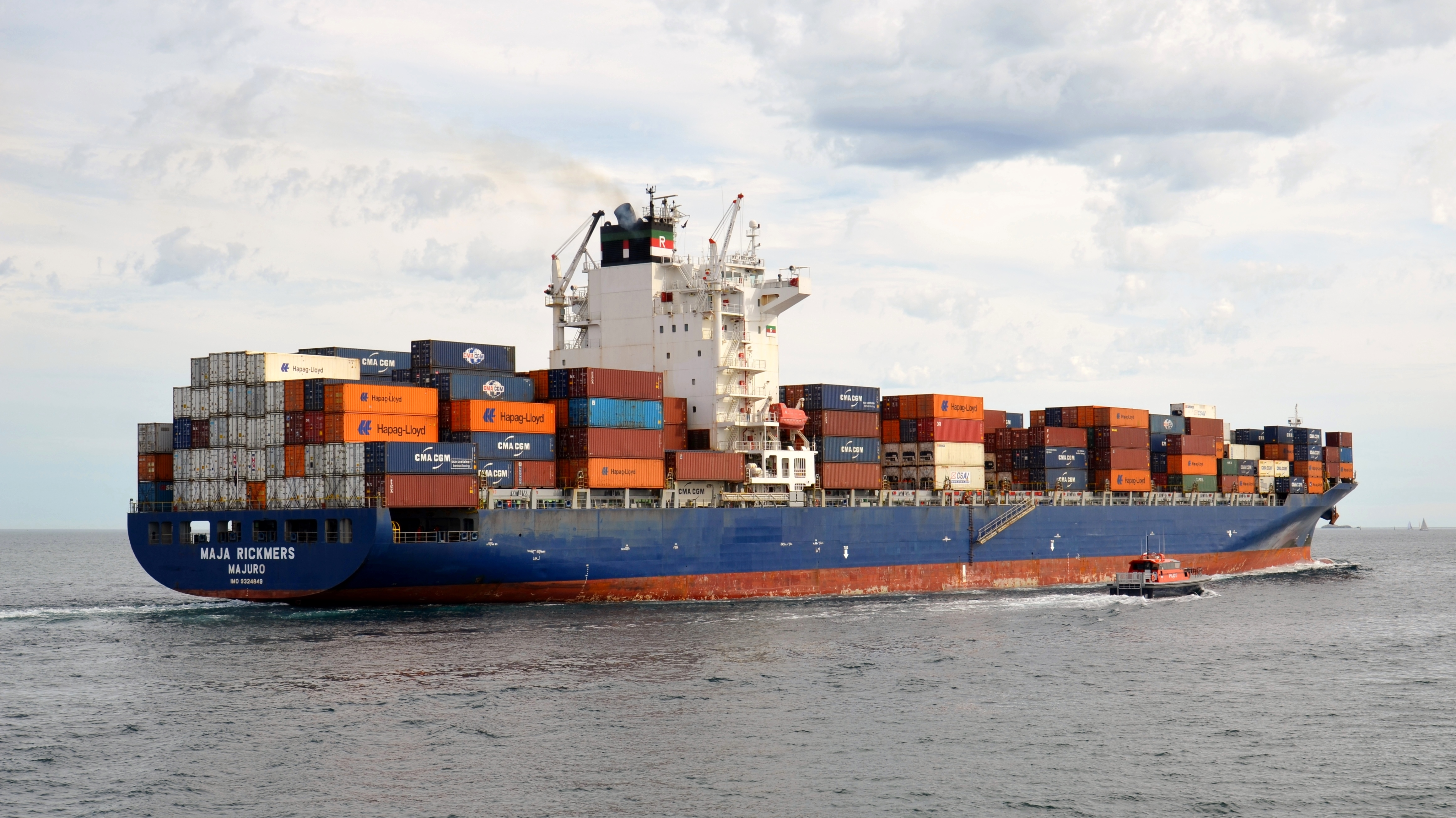 Container ship Maja Rickmers departing from the inner harbour of Fremantle Harbour, Western Australia, on a CMA CGM liner voyage to Melbourne.